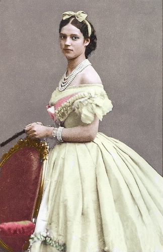 Empress Marie Feodorovna (Dagmar of Denmark), coloured from black and white